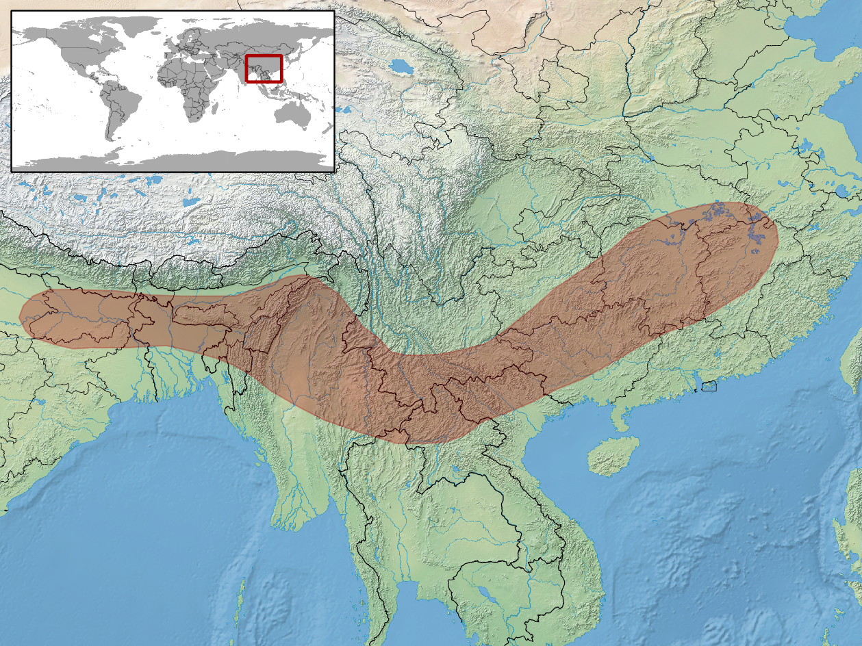 geographic distribution of Protobothrops jerdonii (Native: Bhutan; China; India; Myanmar; Nepal; Viet Nam)